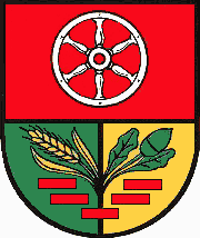 Coat of arms of Breitenworbis